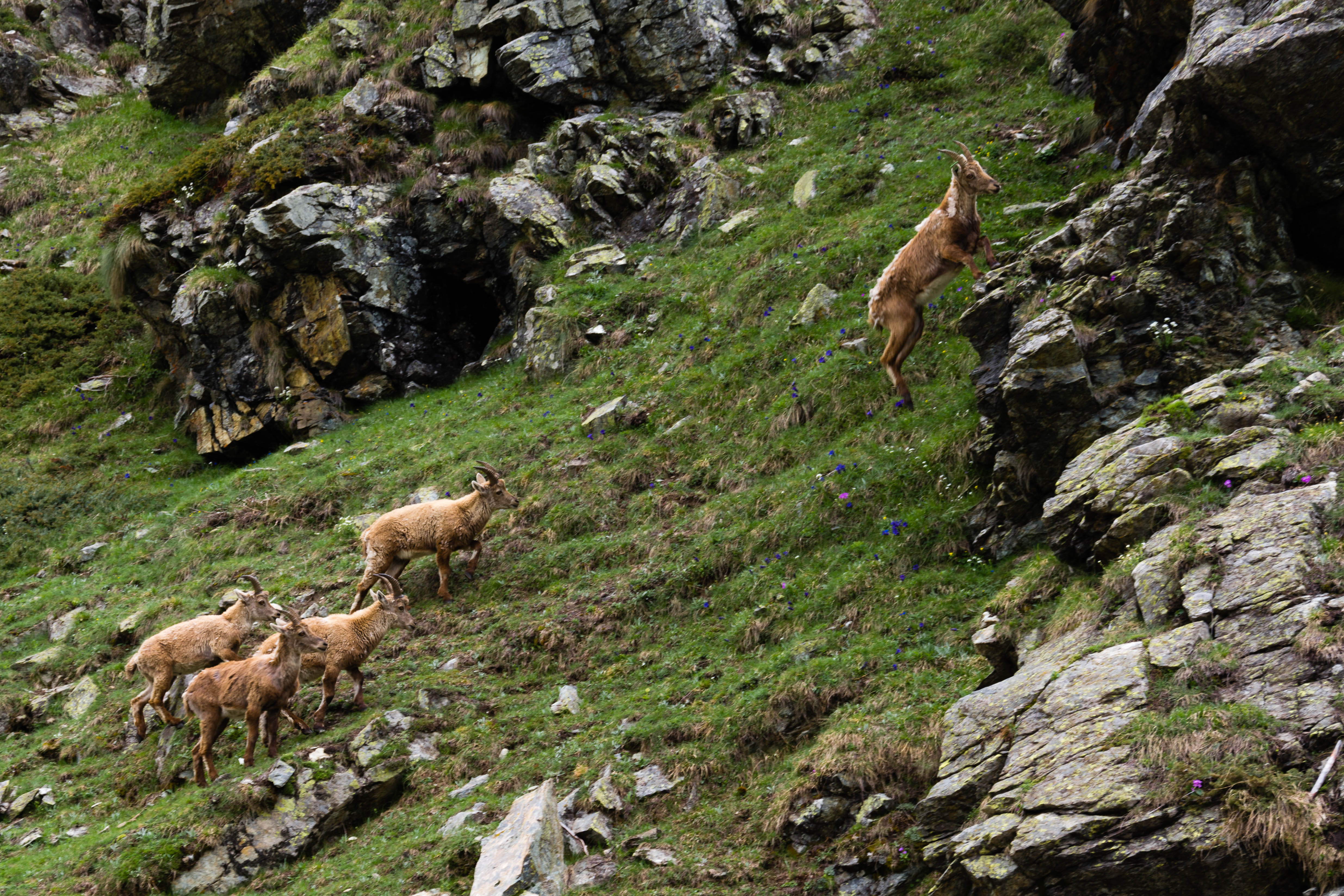 Young ibex running away at Pian della Mussa (Balme) (Q49964105)